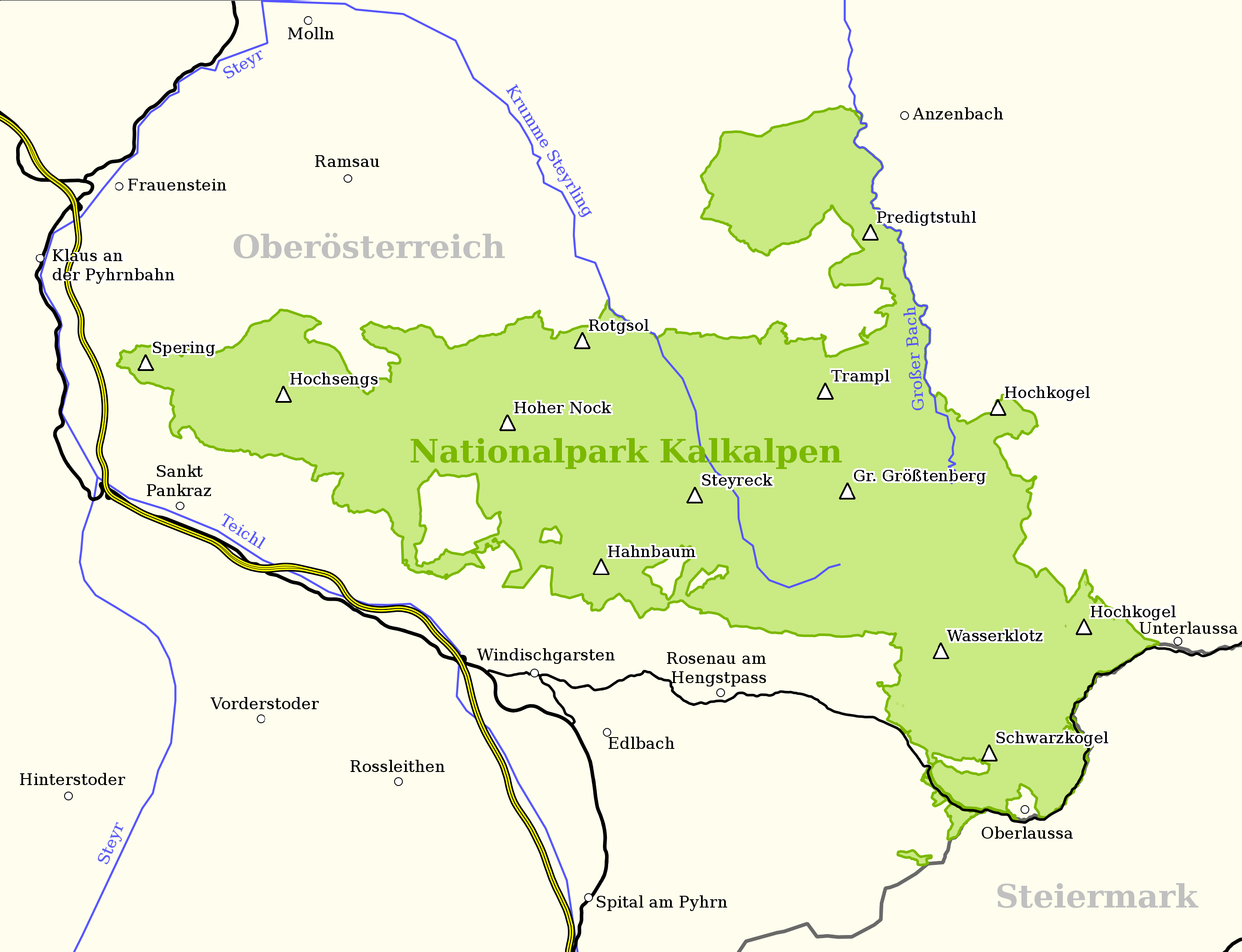 Map of the National park Kalkalpen, Austria; based on a map found on